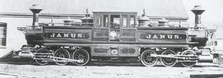 First American double Fairlie - Janus (1871-1877)